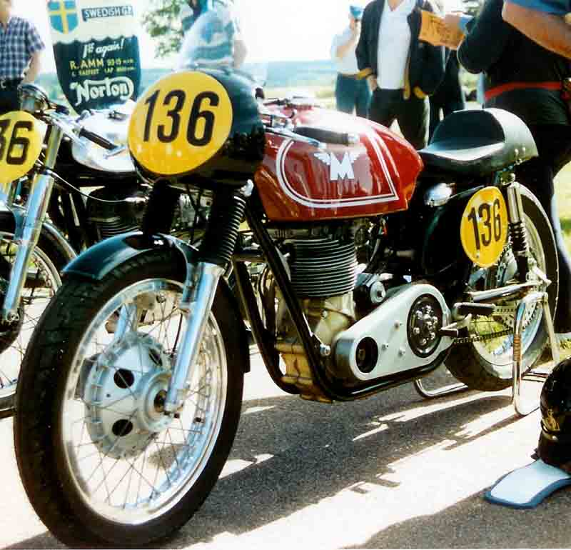 Matchless G50 500 cc Racer 1958